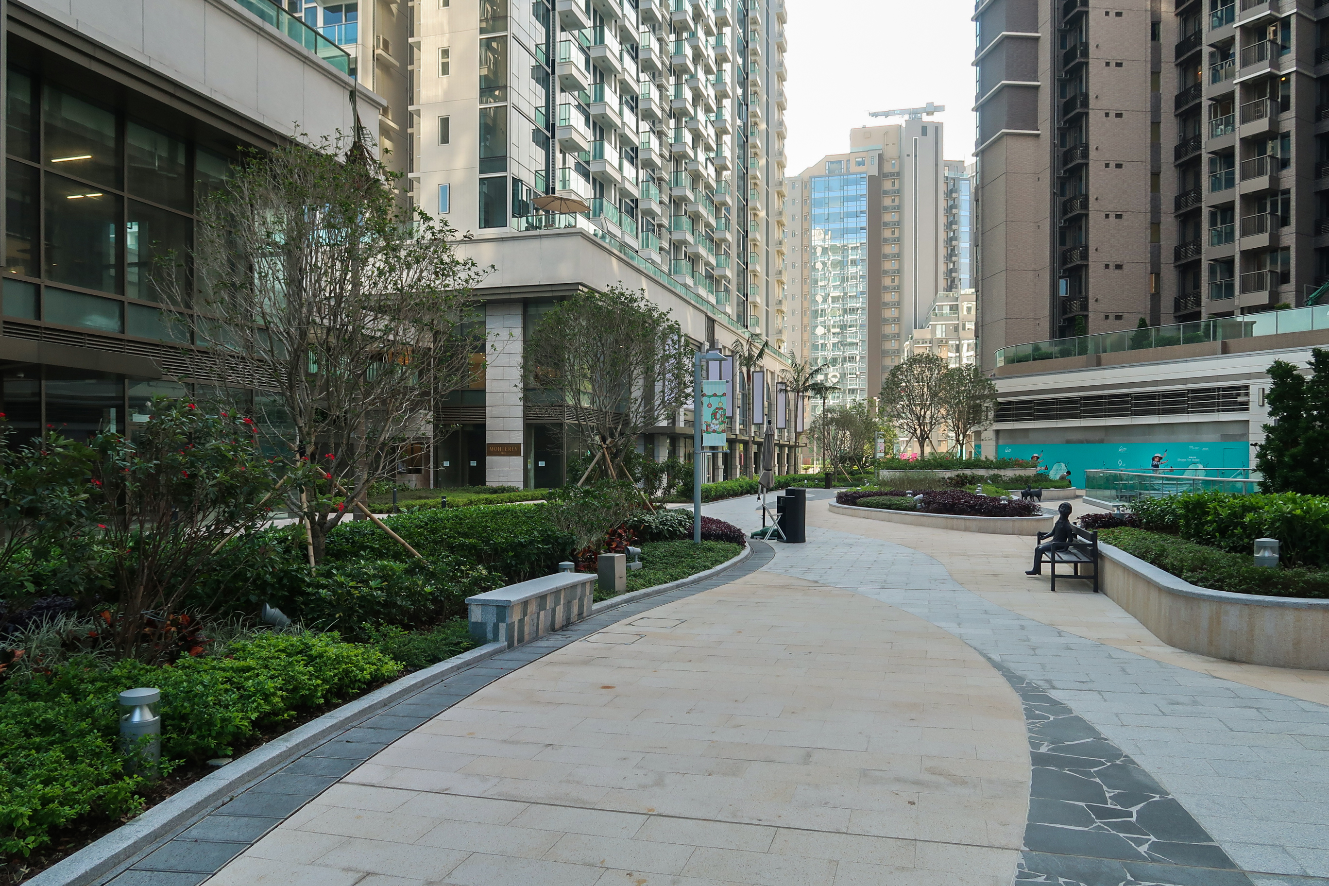 The Papillons Sidewalk